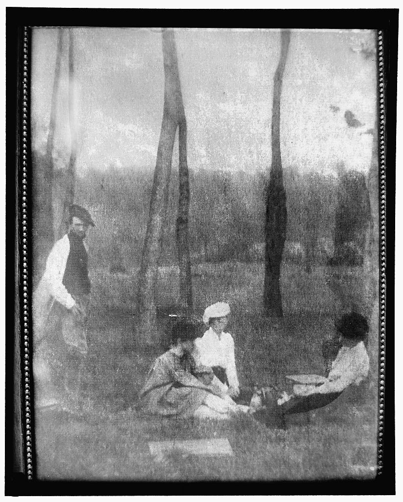 Title: Edward Steichen, Frances Delehanty, Charlotte Smith (Paddock), and Hermine Käsebier (Turner) at Voulangis, France, posed in the spirit of the French Impressionists Abstract/medium: 1 negative : glass, dry plate ; 8 x 10 in.